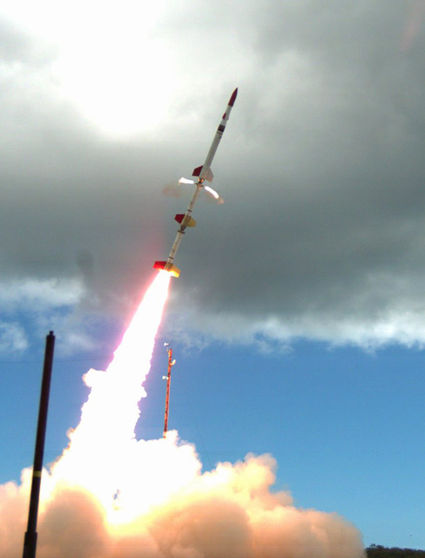 Launch of a Terrier Terrier Oriole rocket from Kauai carrying the HiFire-2 scram-jet experiment